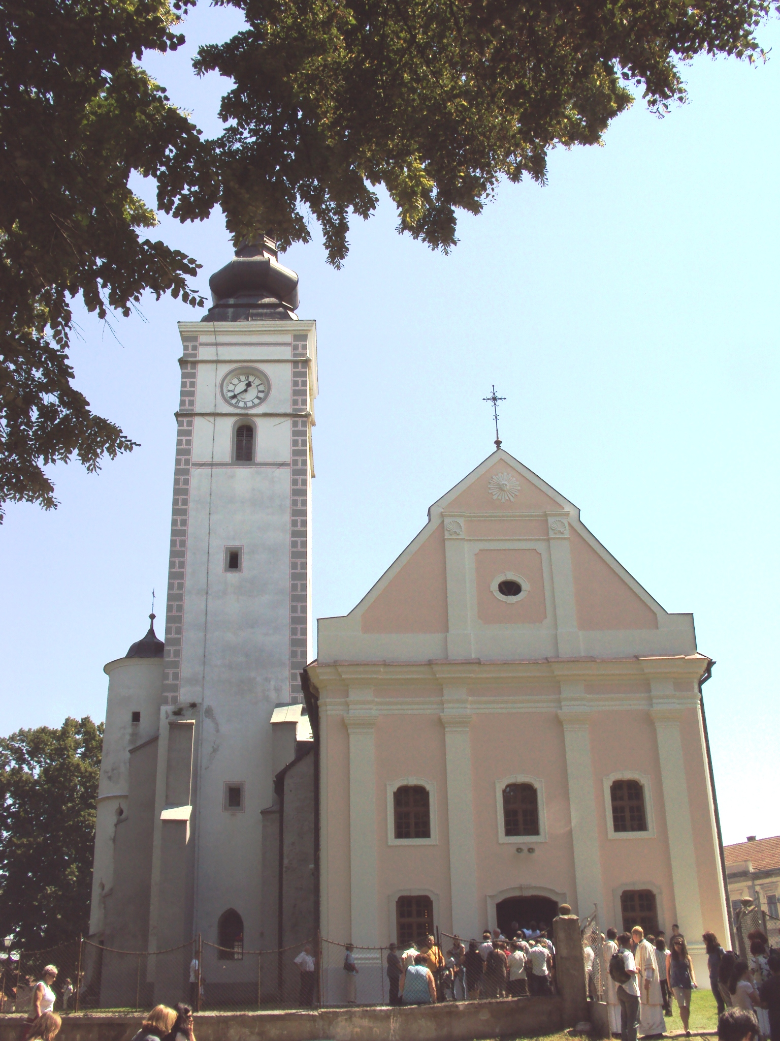 Church of Virgin Mary, Nova Rača, Croatia